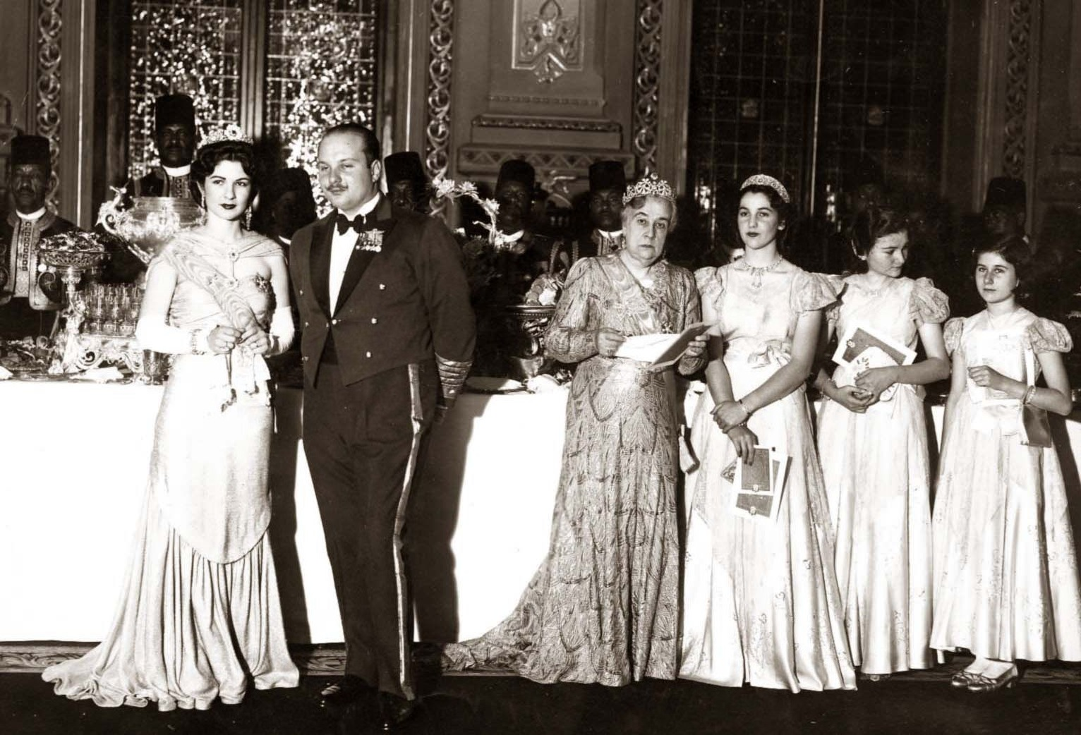 King Farouk I of Egypt celebrates his 22nd birthday at Abdeen Palace with members of his family. According to the photograph's caption on Flickr, it was published on 11 May 1944 in the 830th issue of weekly magazine Rose al-Yūsuf. The people depicted in the photograph are (from left to right): Queen Farida (1921–1988), Farouk's wife; King Farouk I (1920–1965); Princess Nimet Mouhtar (1876–1945), Farouk's paternal aunt; Princess Faiza (1923–1994), Farouk's sister; Princess Faika (1926–1983), Farouk's sister; Princess Fathia (1930–1976), Farouk's sister.